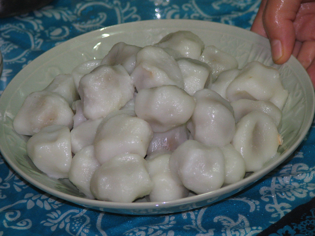 Songpyeon, a variety of tteok, Korean rice cake. It is usually eaten for Chuseok, mid-autumn festival